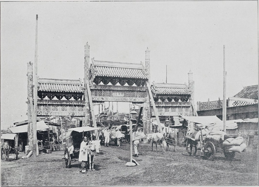 Dongdan Pailou, Beijing